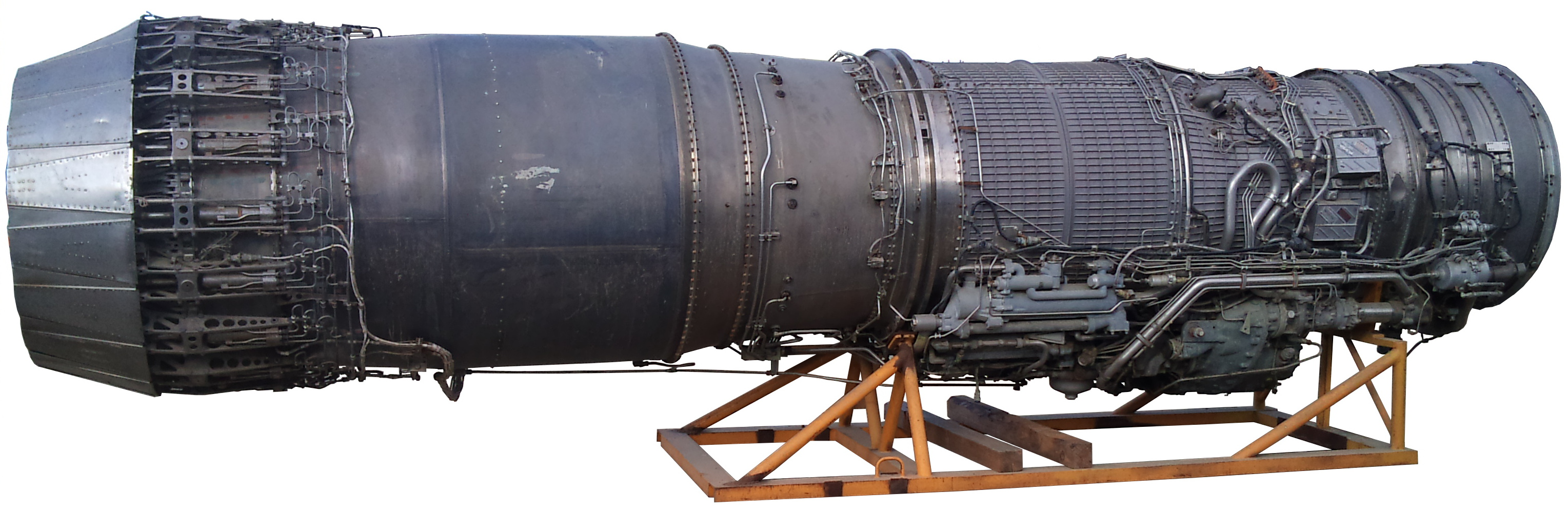 Turboréacteur Pratt&Whithney-SNECMA TF306 used on Mirage G, Mirage F2.